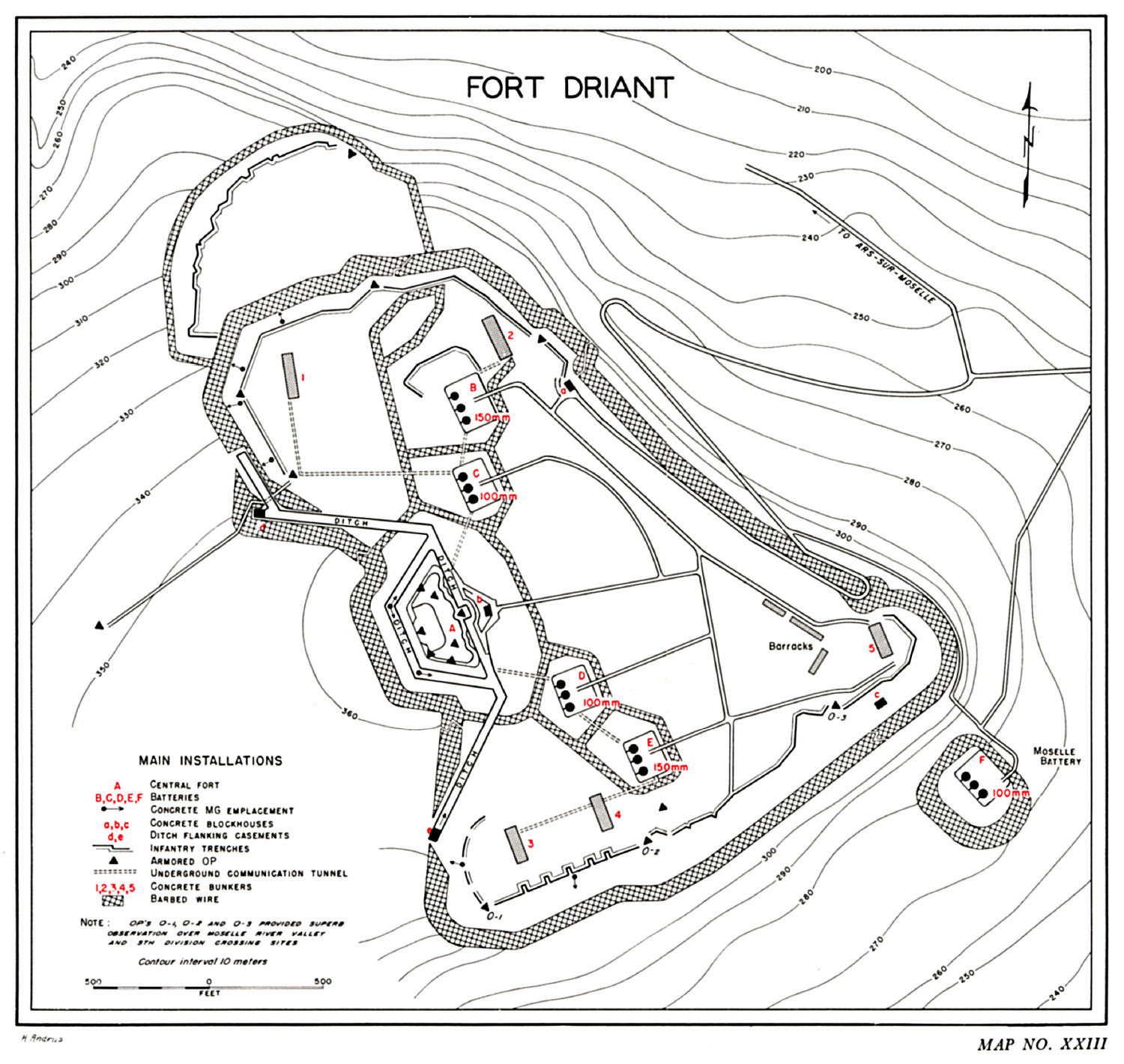 Detailed map of defences of Fort Driant